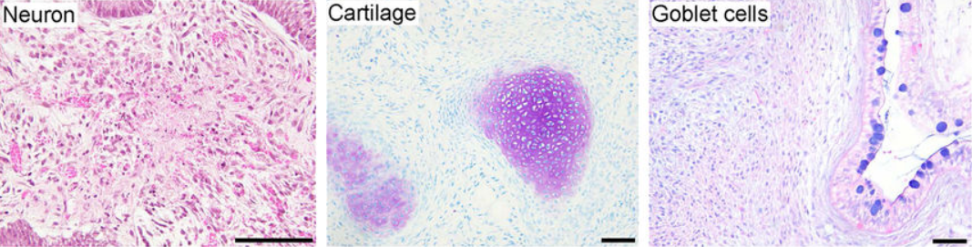 Three germ line cells differentiated from iPSCs. From open-accessed journal Sci. Rep.